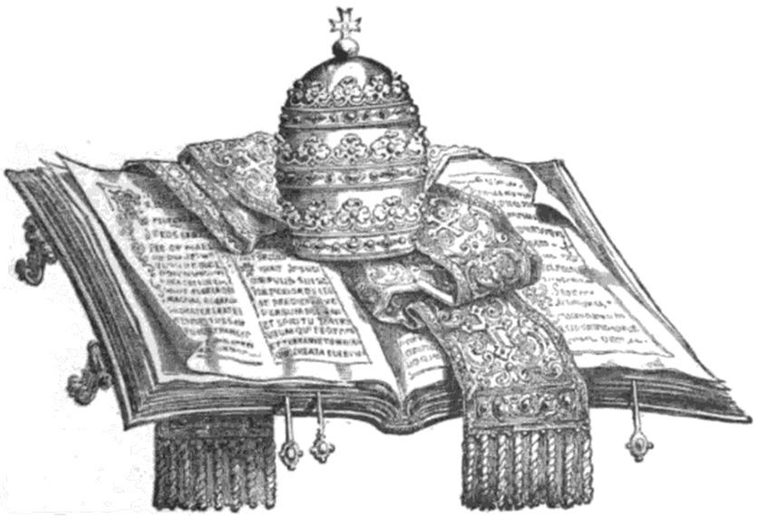 Illustration for Papal Infallibility with Triple Tiara on Bible